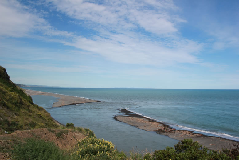 Mohaka Township, Hawke's Bay